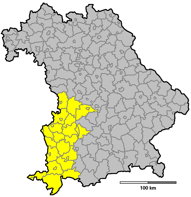 locator map of the former (1970) districts (Landkreise) in Bavaria, Germany